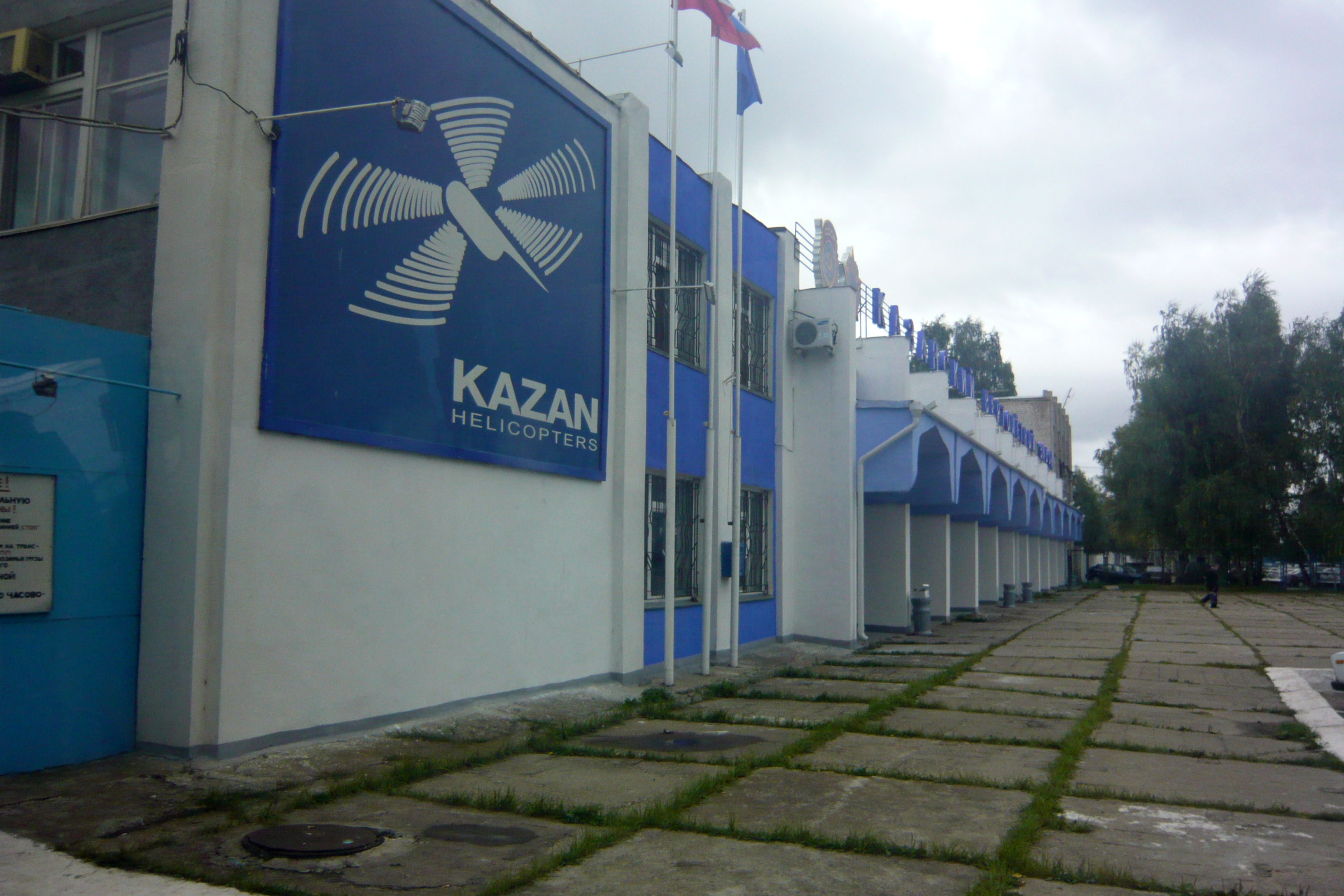 Kazan Helicopters, Kazan